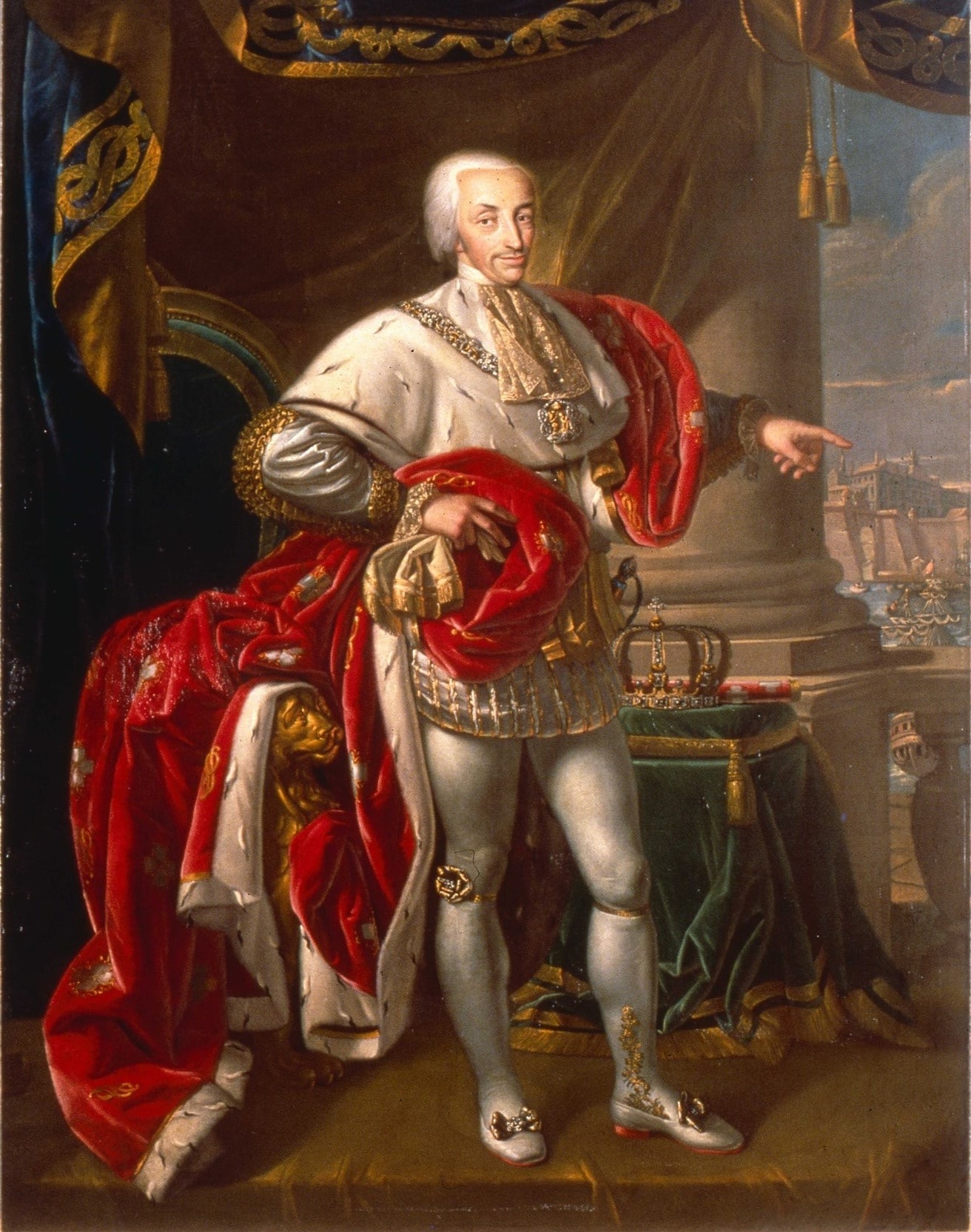 Victor Emmanuel I, king of Sardinia